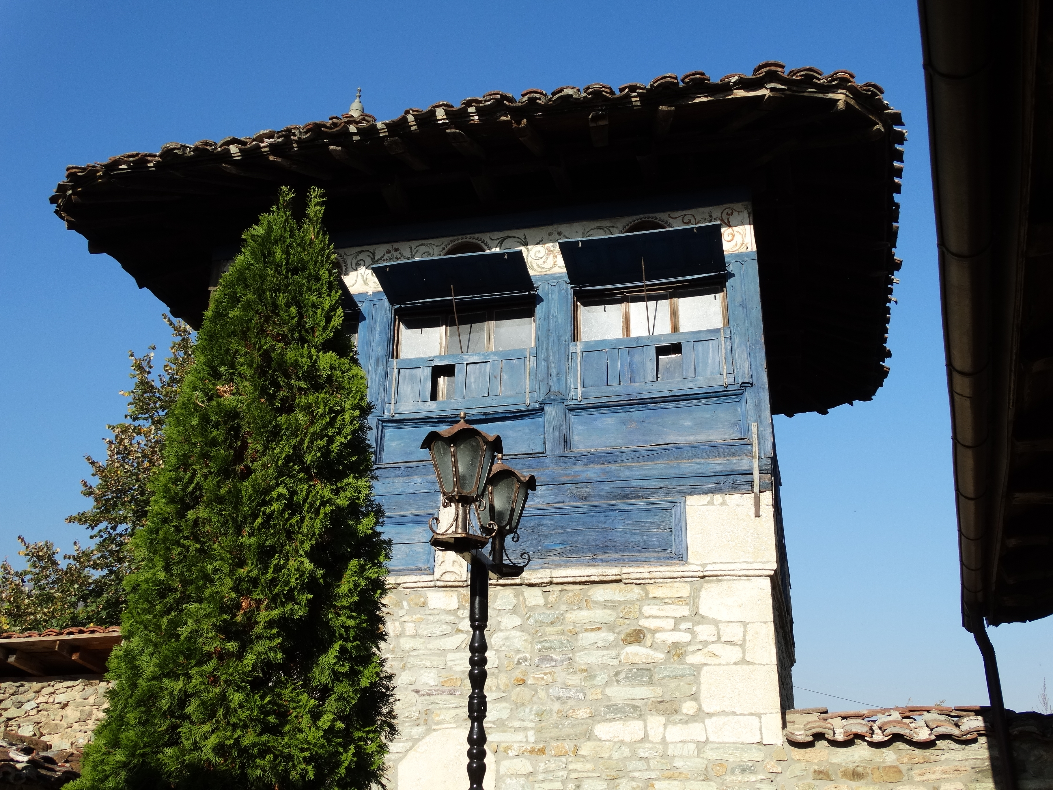 Architectural Detail - Baba Arabati Tekke - Tetova (Tetovo) - Macedonia